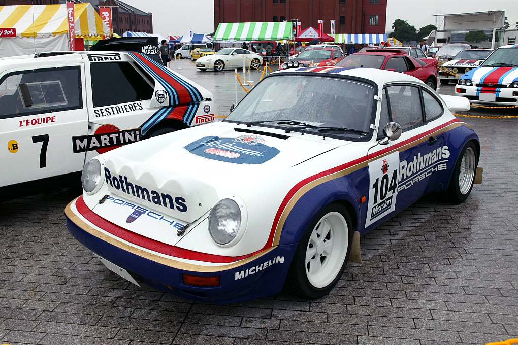 Porsche 911 SC-RS at The Spirit of Rally 2005.